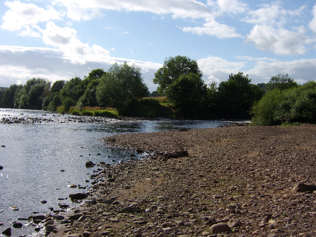 Watersmeet. This is the confluence of the North and South Tyne rivers.